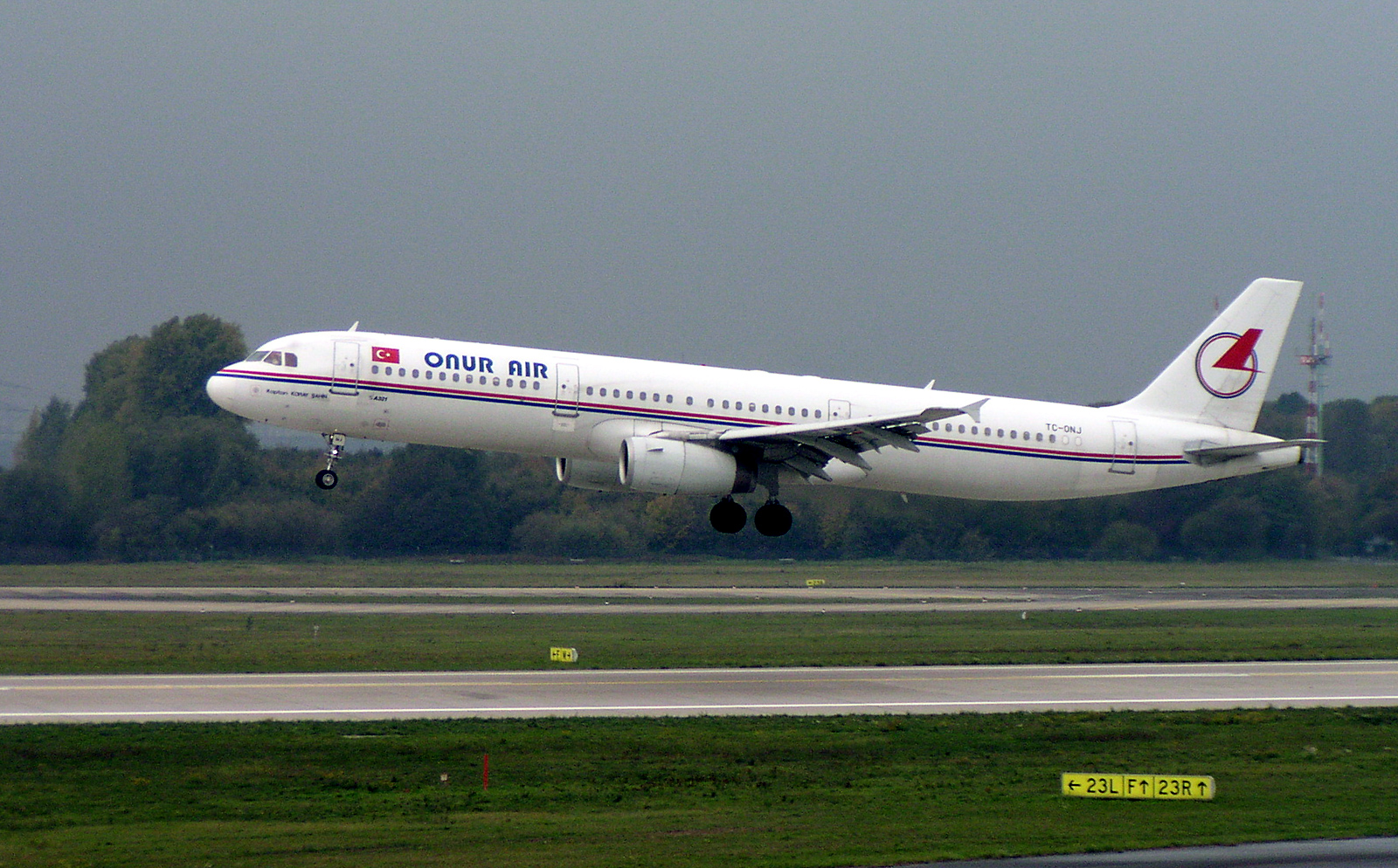 Description: An Onur Air Airbus A321 (TC-ONJ) landing at Düsseldorf Airport, 2003-10-26. Source: taken by myself Photographer: Arcturus Licence: GFDL-self + cc-by-sa-2.0-de